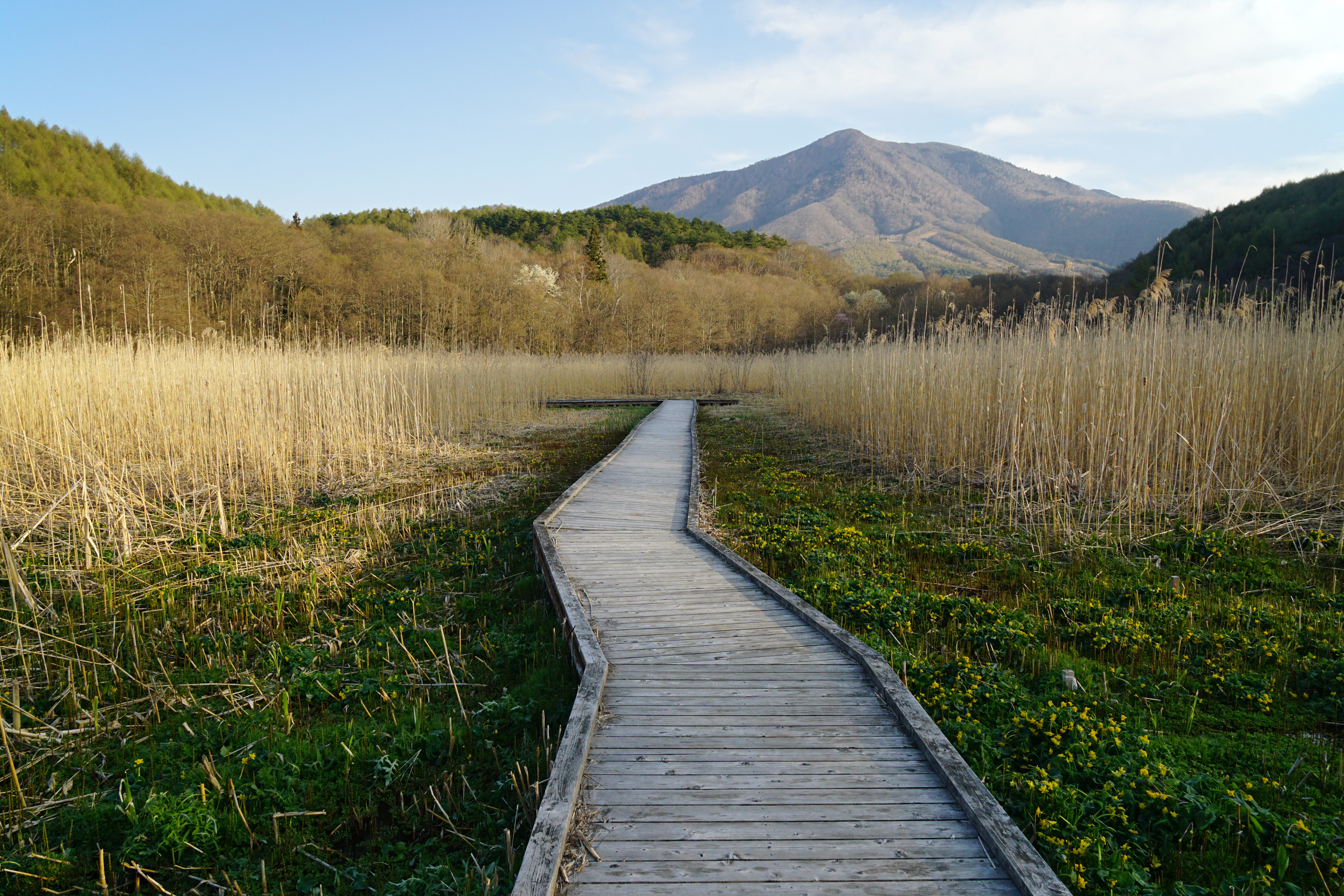 At Ooyachi Shitsugen in Nagano, Nagano prefecture, Japan.